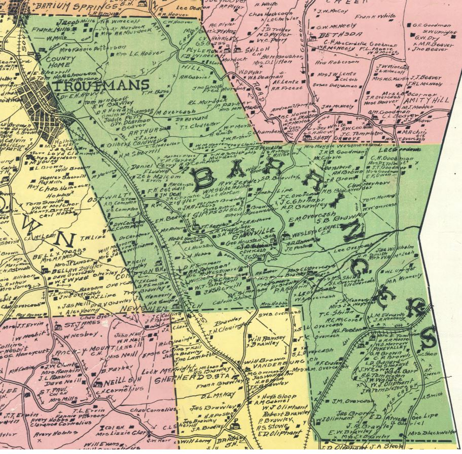 Printed in color, mounted on linen. Townships designated by color. Map shows school districts, mills, churches, retail stores, rural mail routes, African American churches, townships, landowners, schools, African American schools, dairies, tenants, and railroads including the Southern Railway and the "Proposed Statesville Air Line Railway." Townships shown include New Hope, Union Grove, Eagle Mills, Sharpsburg, Olin, Turnersburg, Concord, Bethany, Cool Springs, Shiloh, Statesville, Chambersburg, Fallstown, Barringers, Davidson, and Coddle Creek.